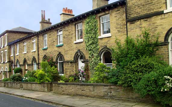 Cottages at Saltaire Immaculately maintained cottages in Saltaire, Yorkshire